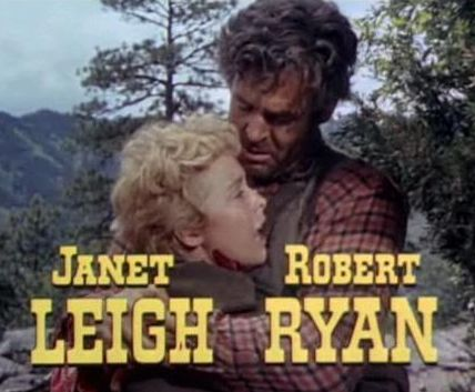 Screenshot of Janet Leigh and Robert Ryan from the film The Naked Spur (1953).